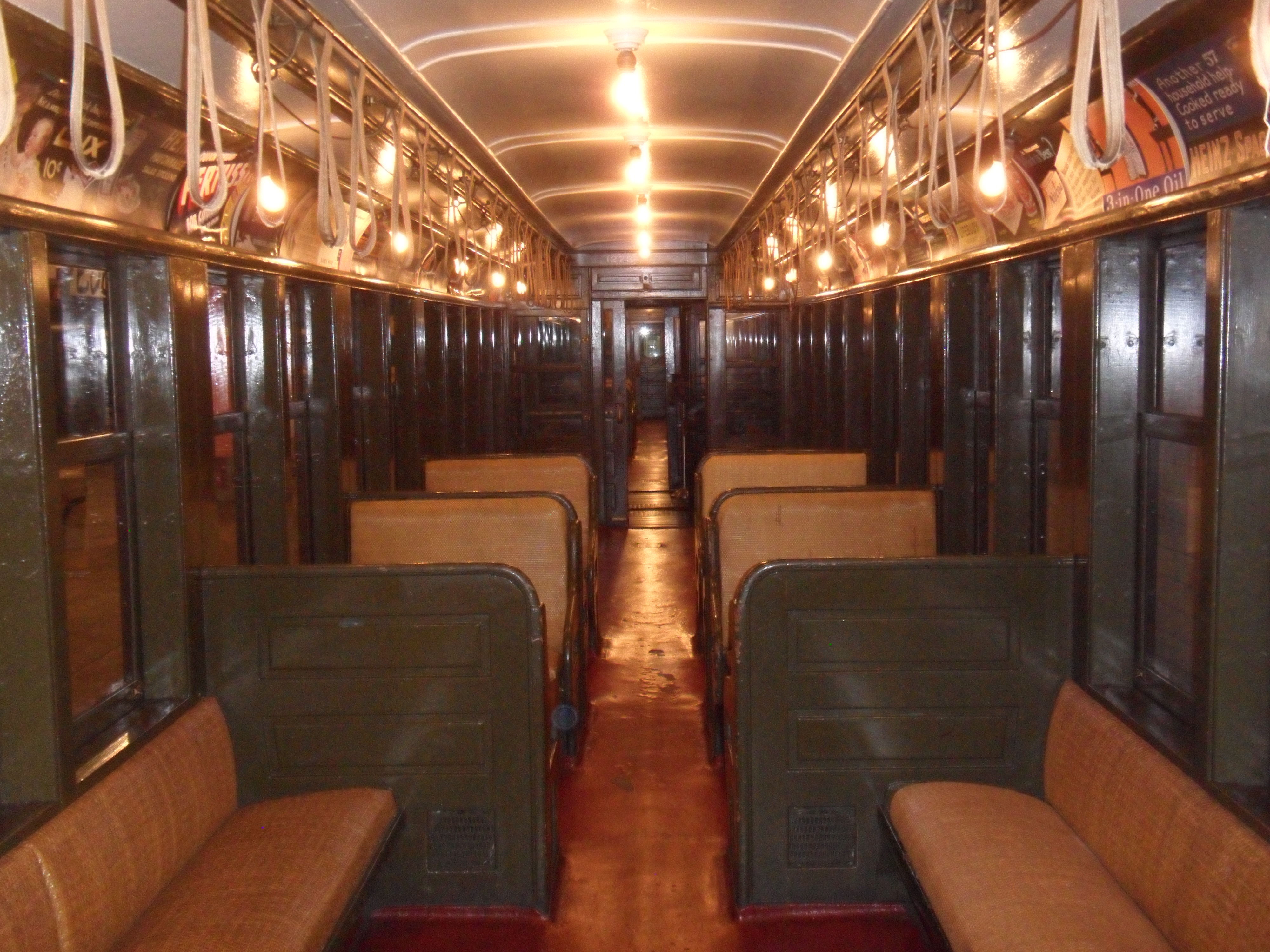 Interior of old subway car with wicker seats